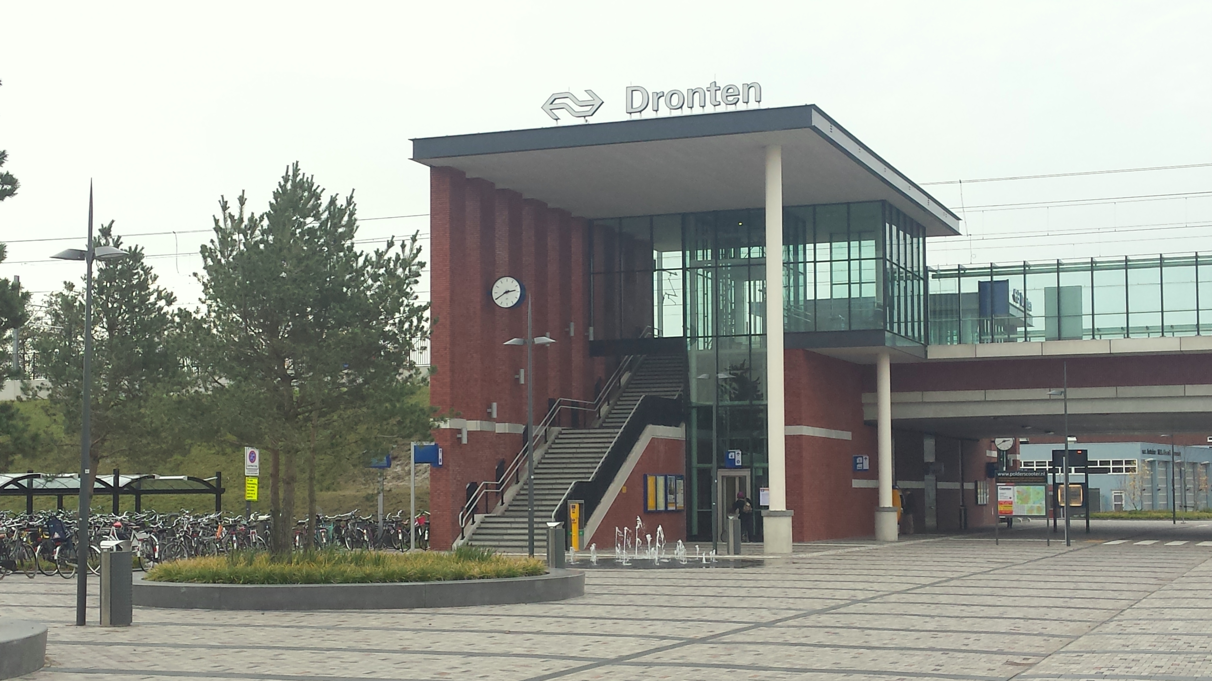 Dronten Train Station, Nov. 2013